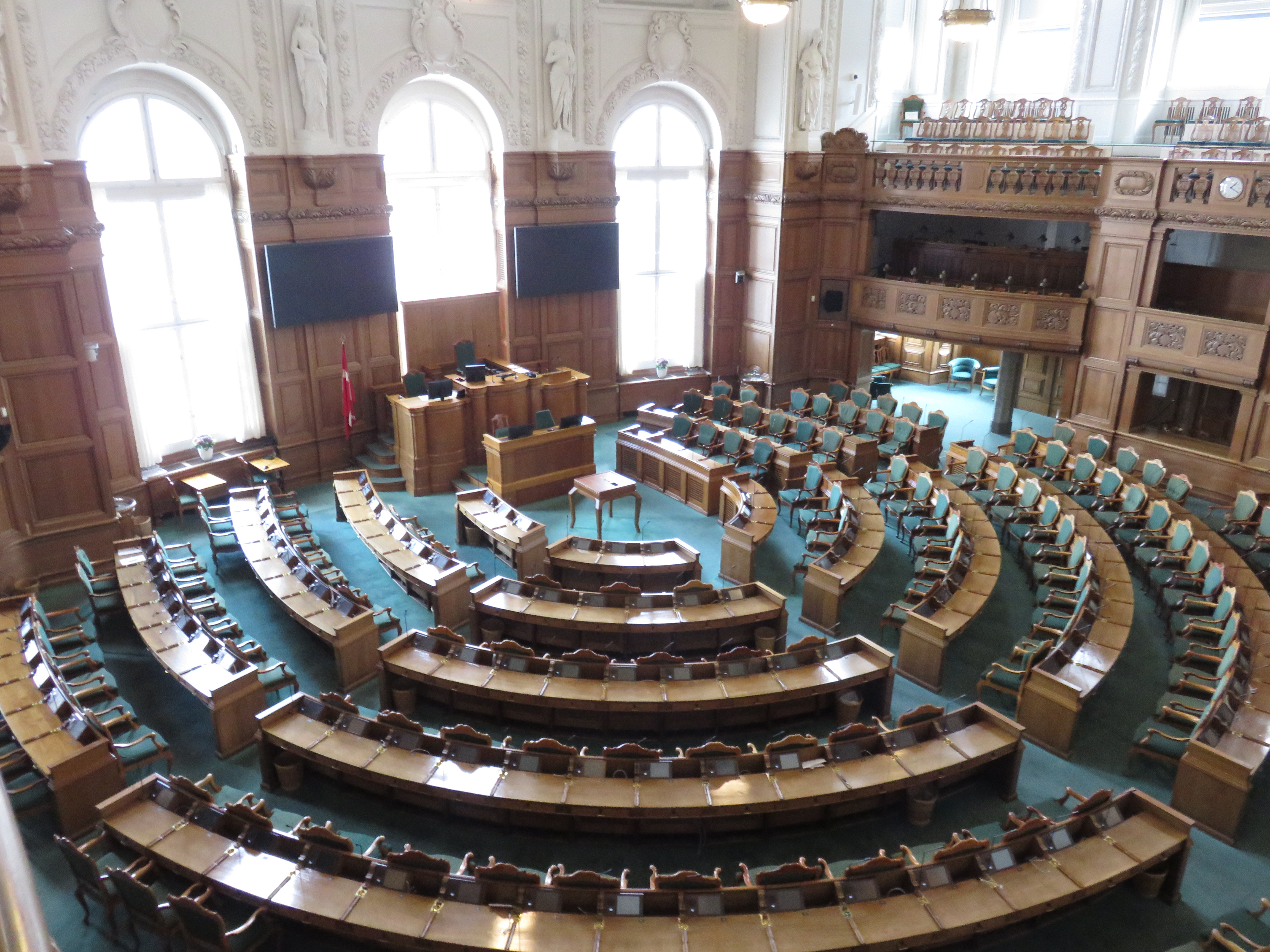 Folketinget chamber in Christiansborg Palace, Copenhagen, Denmark in 2018